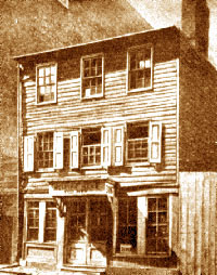 Picture of Helping Hand for Men (better known as McAuley Water Street Mission)